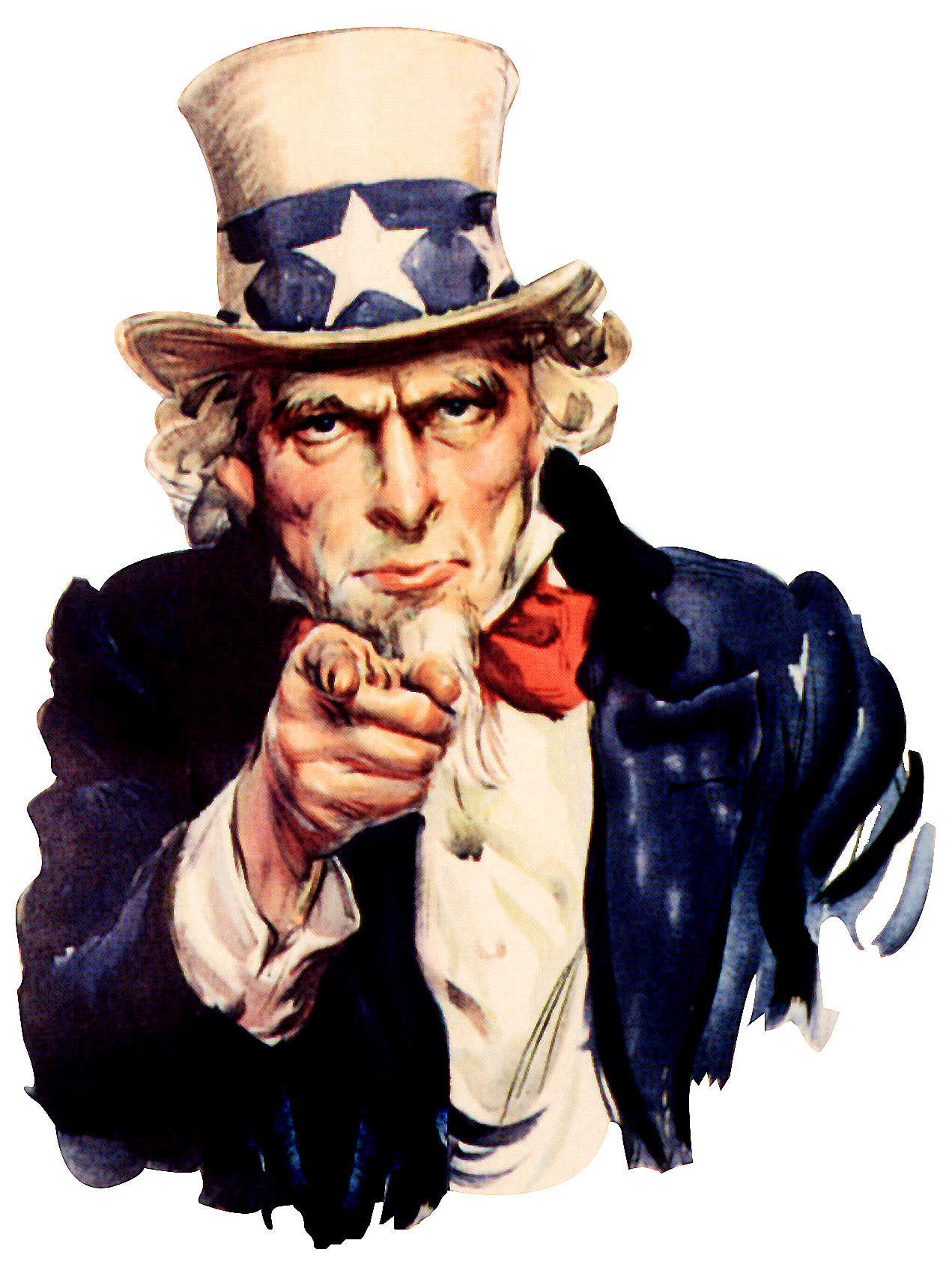 Description: US Propaganda material (for recruiting) ** Subtext: Uncle Sam needs YOU! * Painted by : James Montgomery Flagg in 1916-1917 * from